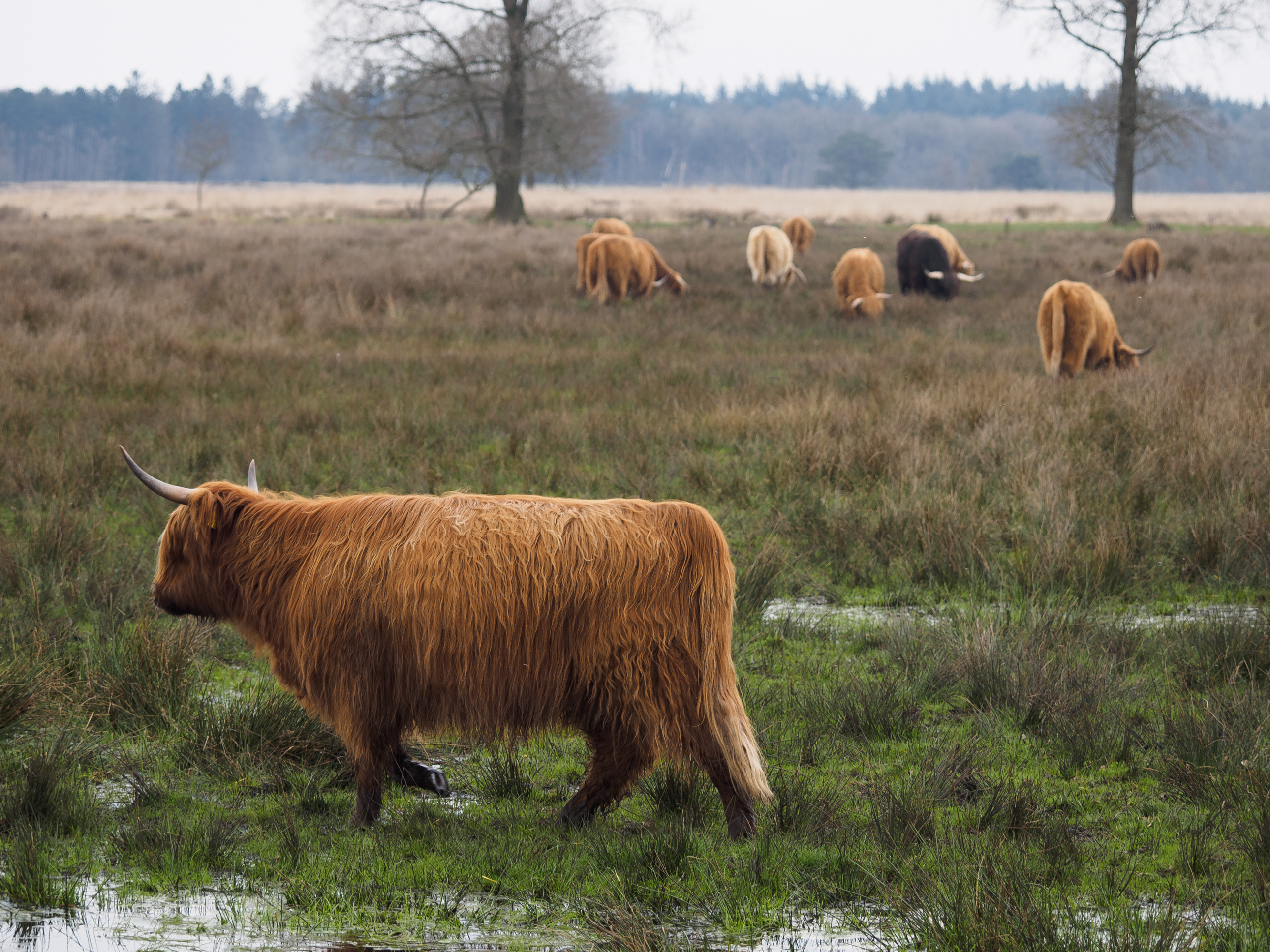 Scottish cattle grazing in wet grasslands, Drents-Friese Wold national park